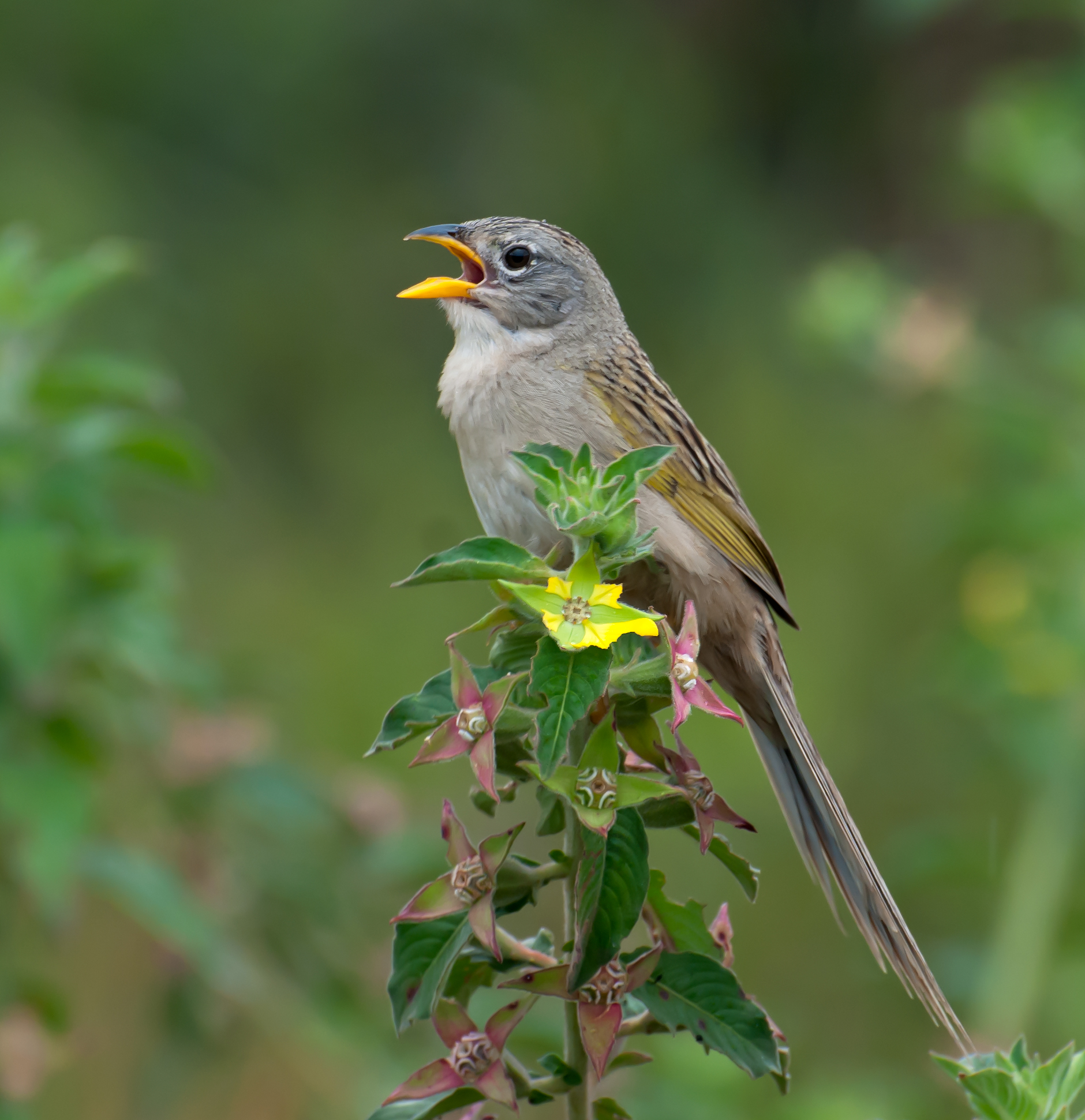 A Wedge-tailed Grass-finch in a nature reserve, Piraju, São Paulo, Brazil.